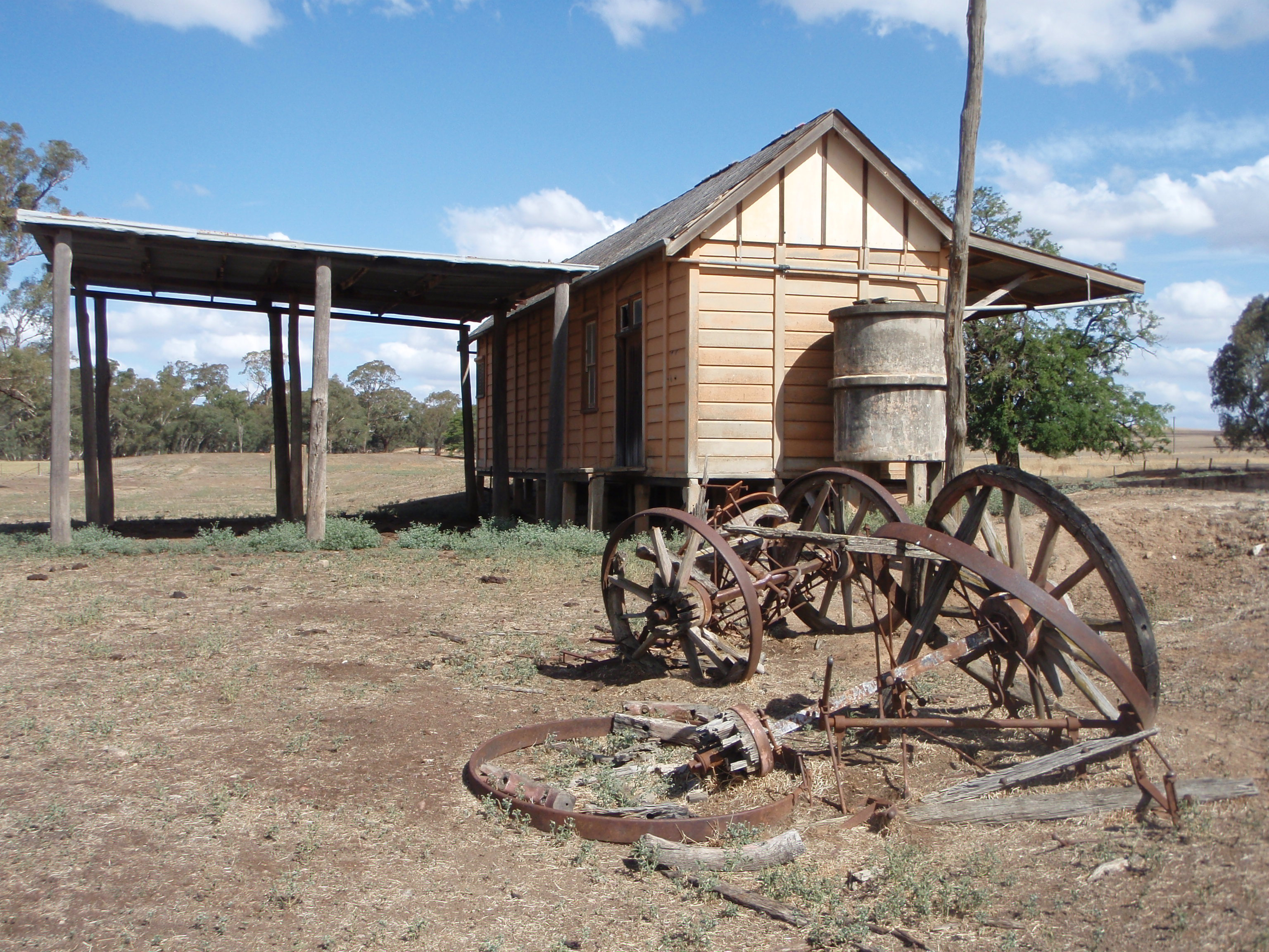 Westby Rail Station - closed since the mid 1950's and now on privately owned property